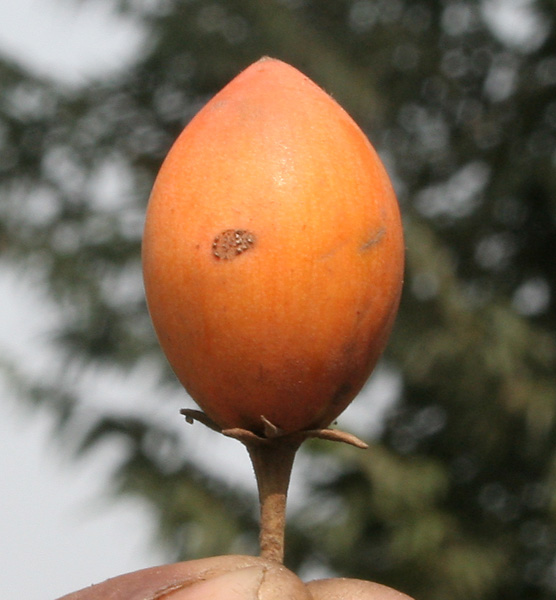 Maulsari Mimusops elengi in Kolkata, West Bengal, India.